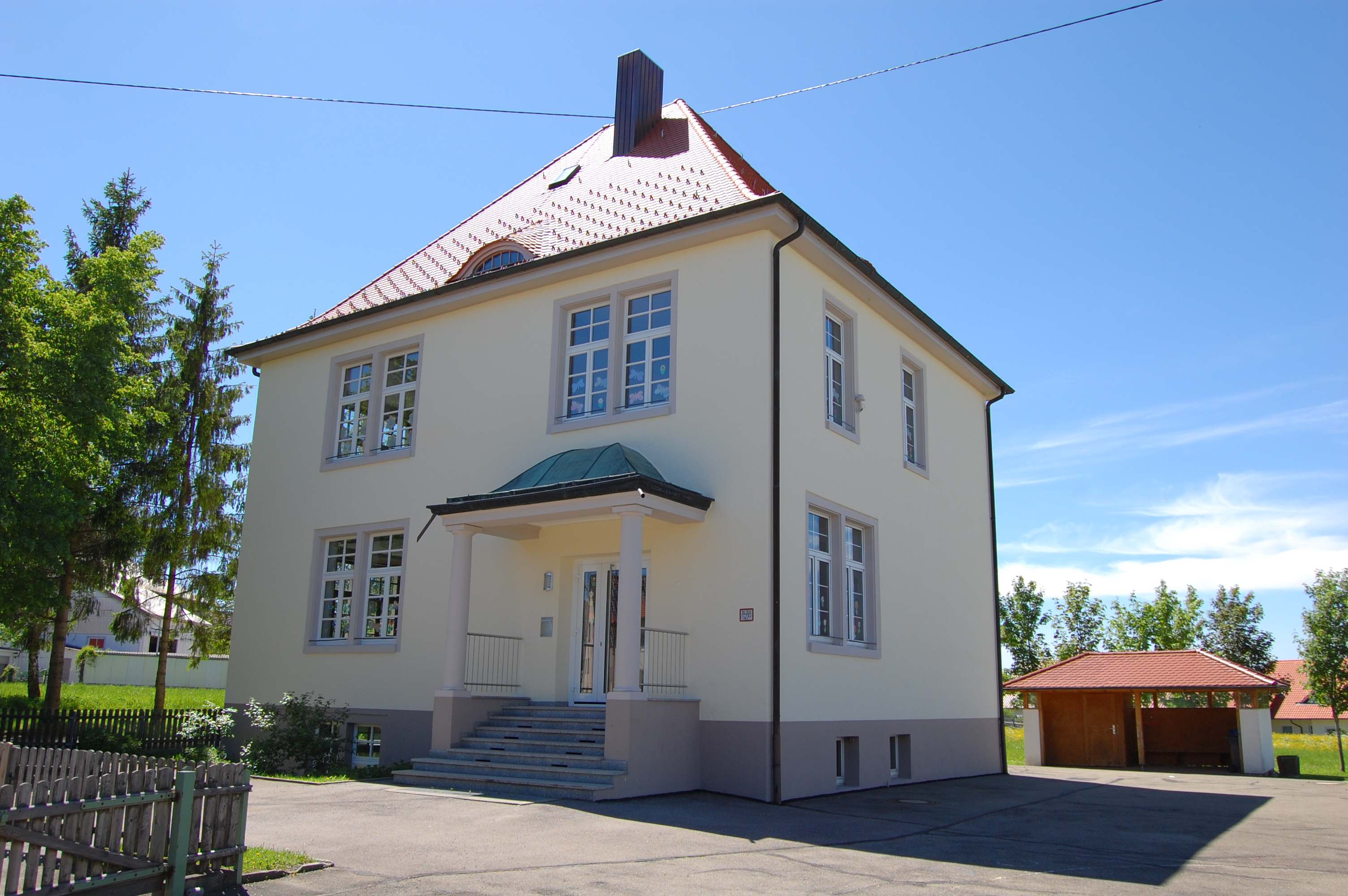 Heinstetten - primary school building